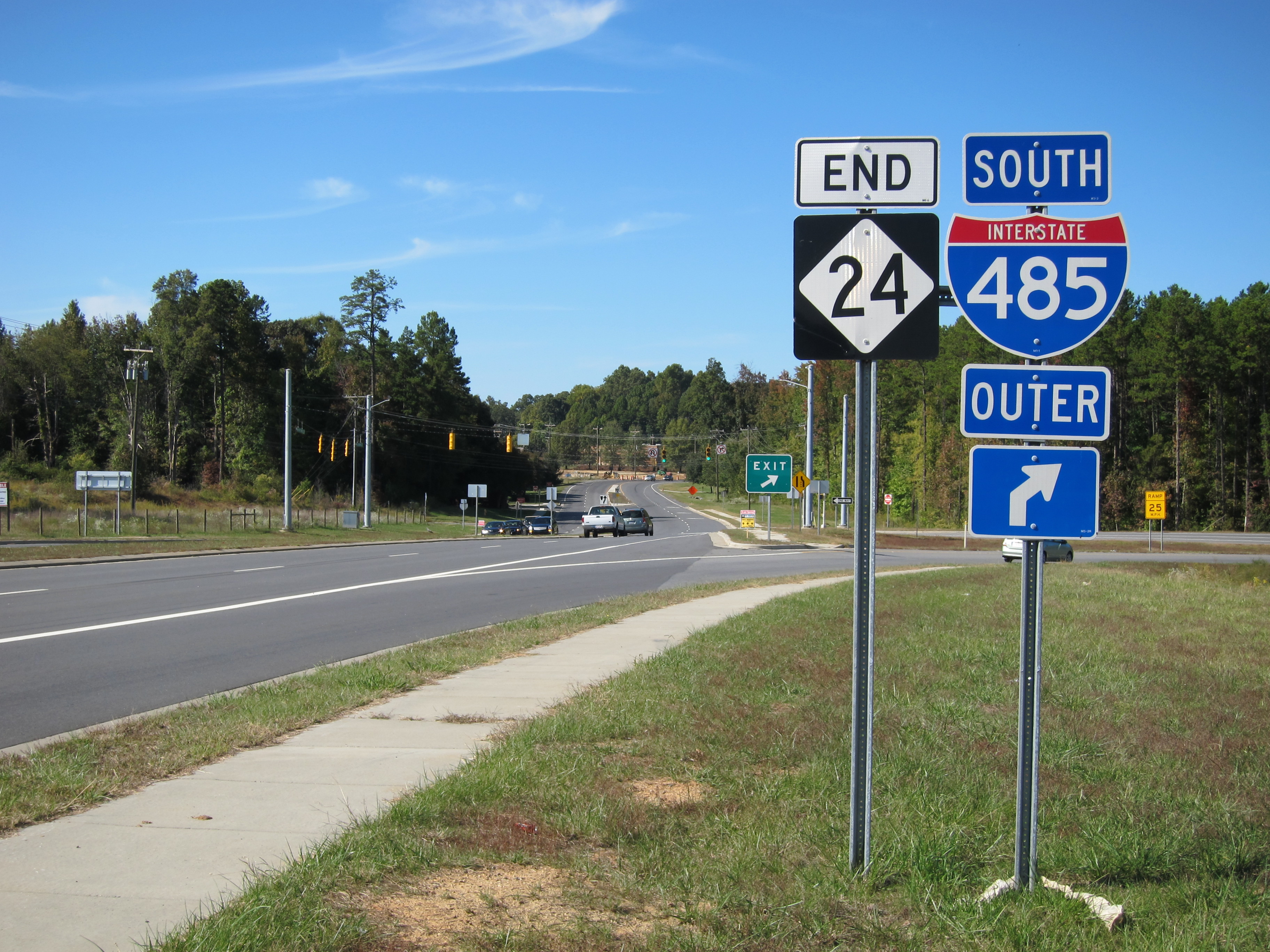 North Carolina Highway 24 End Sign at I-485 in Charlotte, North Carolina.